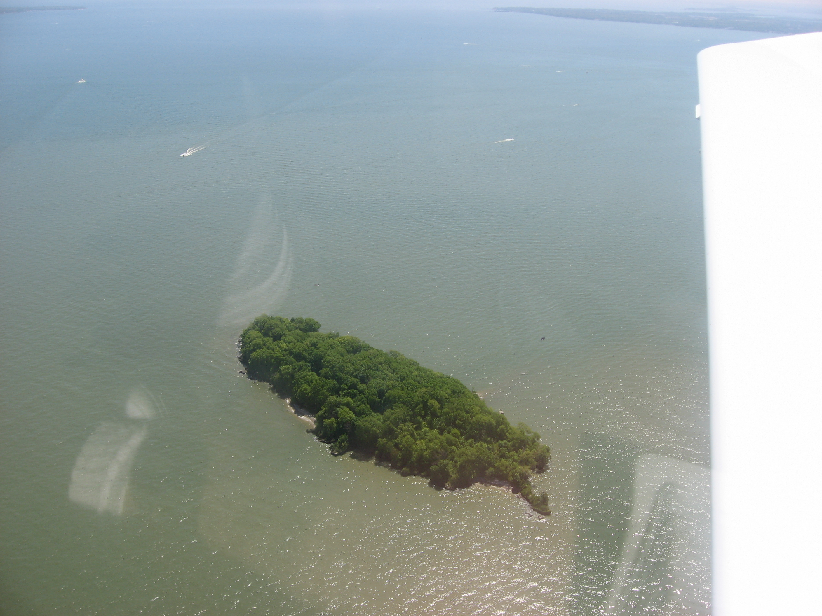 Mouse Island, a small island just off the north point of Catawba Island, one of the Lake Erie Islands in Ottawa County, Ohio, United States. Picture taken from a Diamond Eclipse light airplane at an altitude of 1,550 feet MSL and a bearing of approximately 70º. Wide flat whitish areas in the water are (sadly) reflections from inside the plane cockpit.